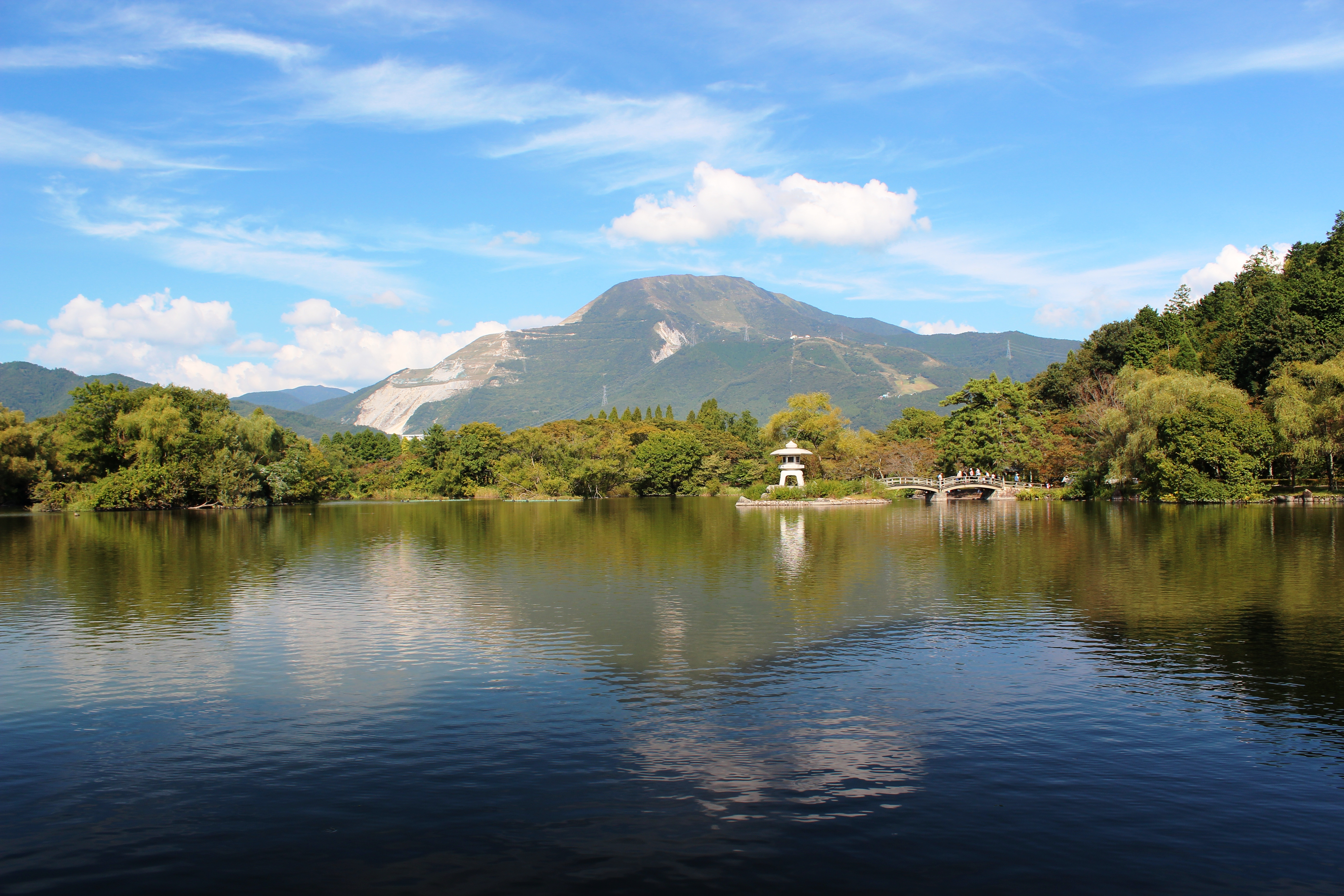 Mount Ibuki seen from Mishima Pond, in Maibara, Shiga prefecture, Japan.